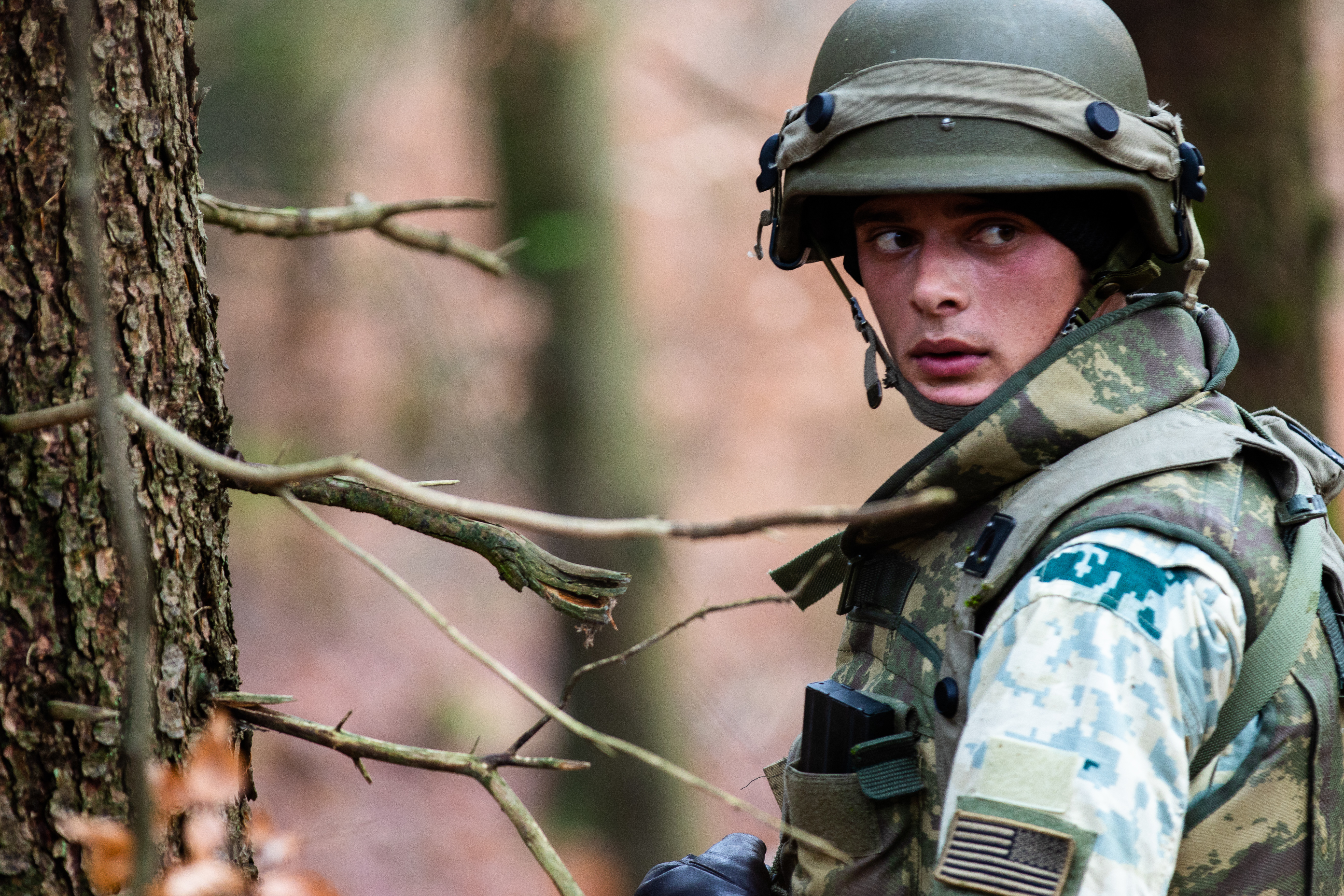 A member of the Albanian military searches for opposing forces during a training mission as part of exercise Combined Resolve XI in Hohenfels Training Area, Germany, Dec. 7, 2018. CBRXI gives the U.S. Army’s regionally allocated forces in Europe the opportunity to execute a combat training center rotation with a joint, multinational environment demonstrating their integration into U.S. Army Europe operations. (U.S. Army photo by Spc. Matthew J. Marcellus)